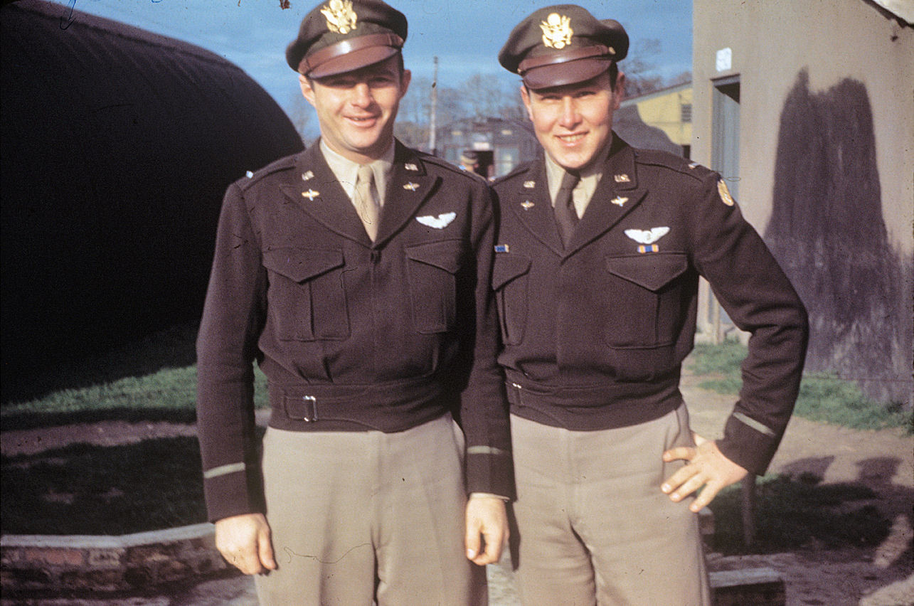 First Lieutenant Lucius R Ades (Pilot) and Second-Lieutenant Preston G Redd (Navigator) of the 389th Bomb Group. written on slide casing: '1/Lt Lucius R Ades (Pilot), 2/Lt Preston G Redd (Navigator- Lead) Gee H for 2AD. 4 Sept 44, IV Hethel. Bigast Boid.'